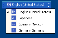 Screenshot of a standalone (out-of-taskbar) Language Bar in Windows XP, switching languages